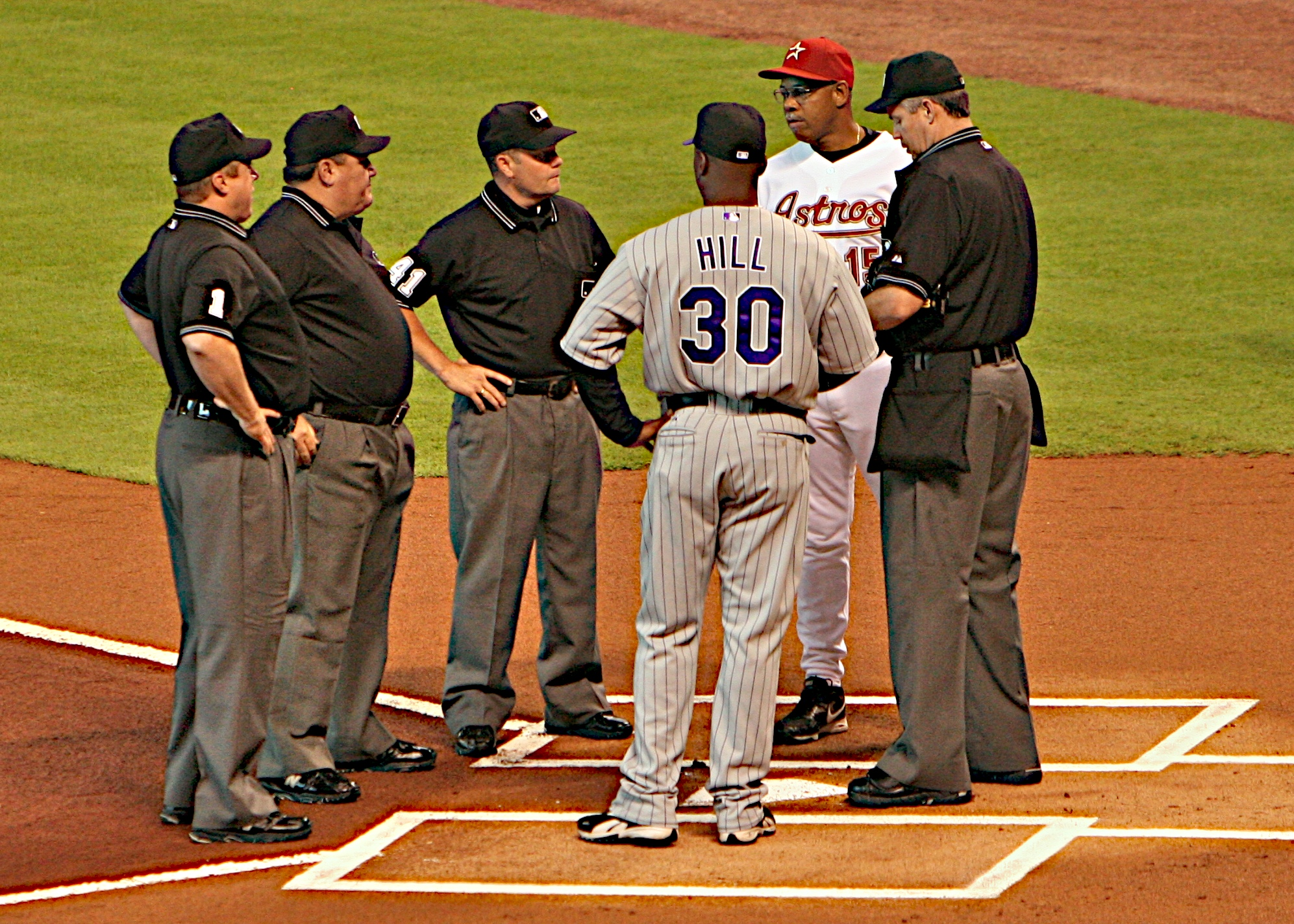 Colorado Rockies at Houston Astros - June 30, 2007.